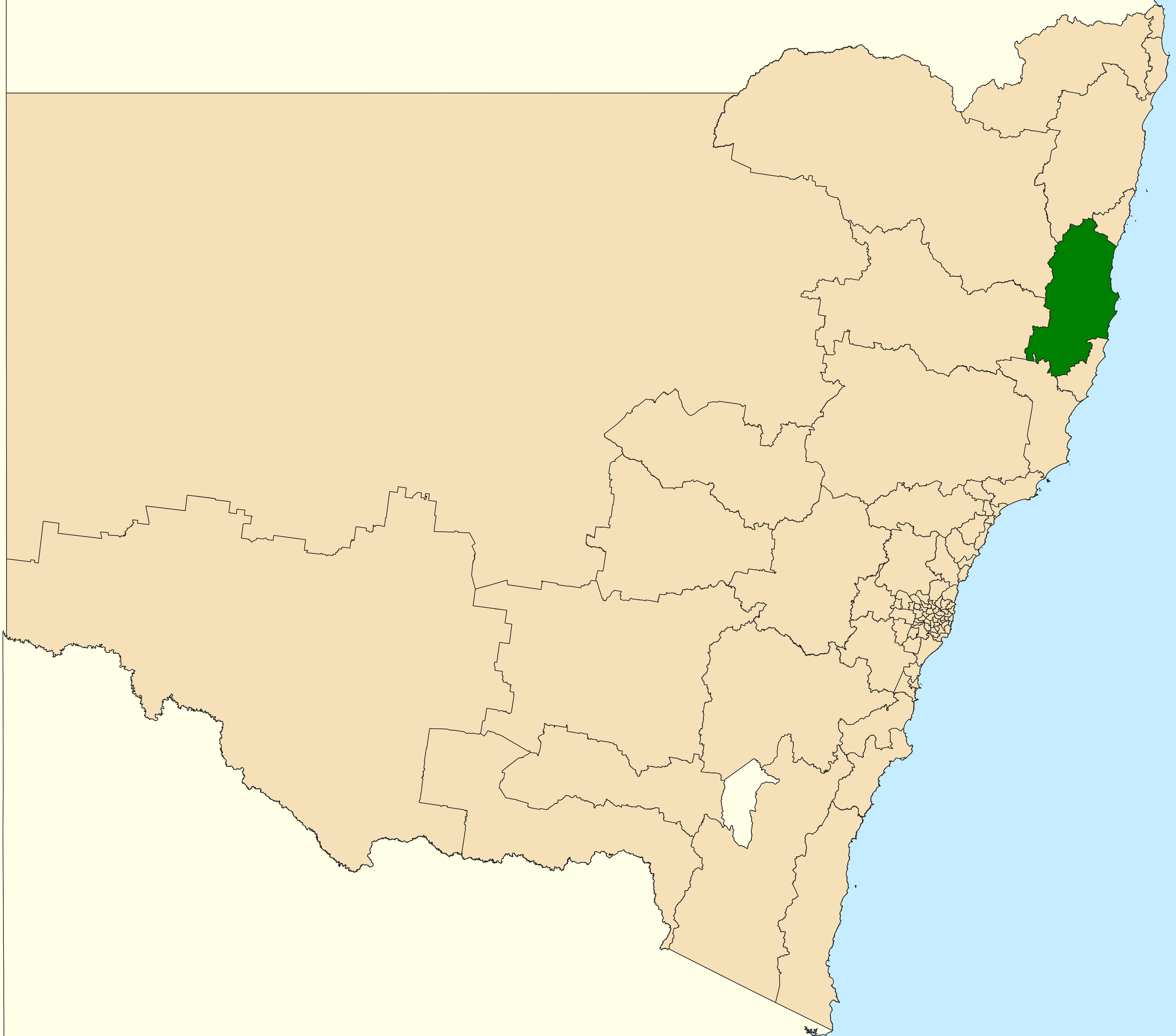 Location of the state electoral district of Oxley (dark green) in New South Wales as of the 2019 New South Wales state election. Incorporates or developed using Administrative Boundaries ©PSMA Australia Limited licensed by the Commonwealth of Australia under Creative Commons Attribution 4.0 International licence (CC BY 4.0).